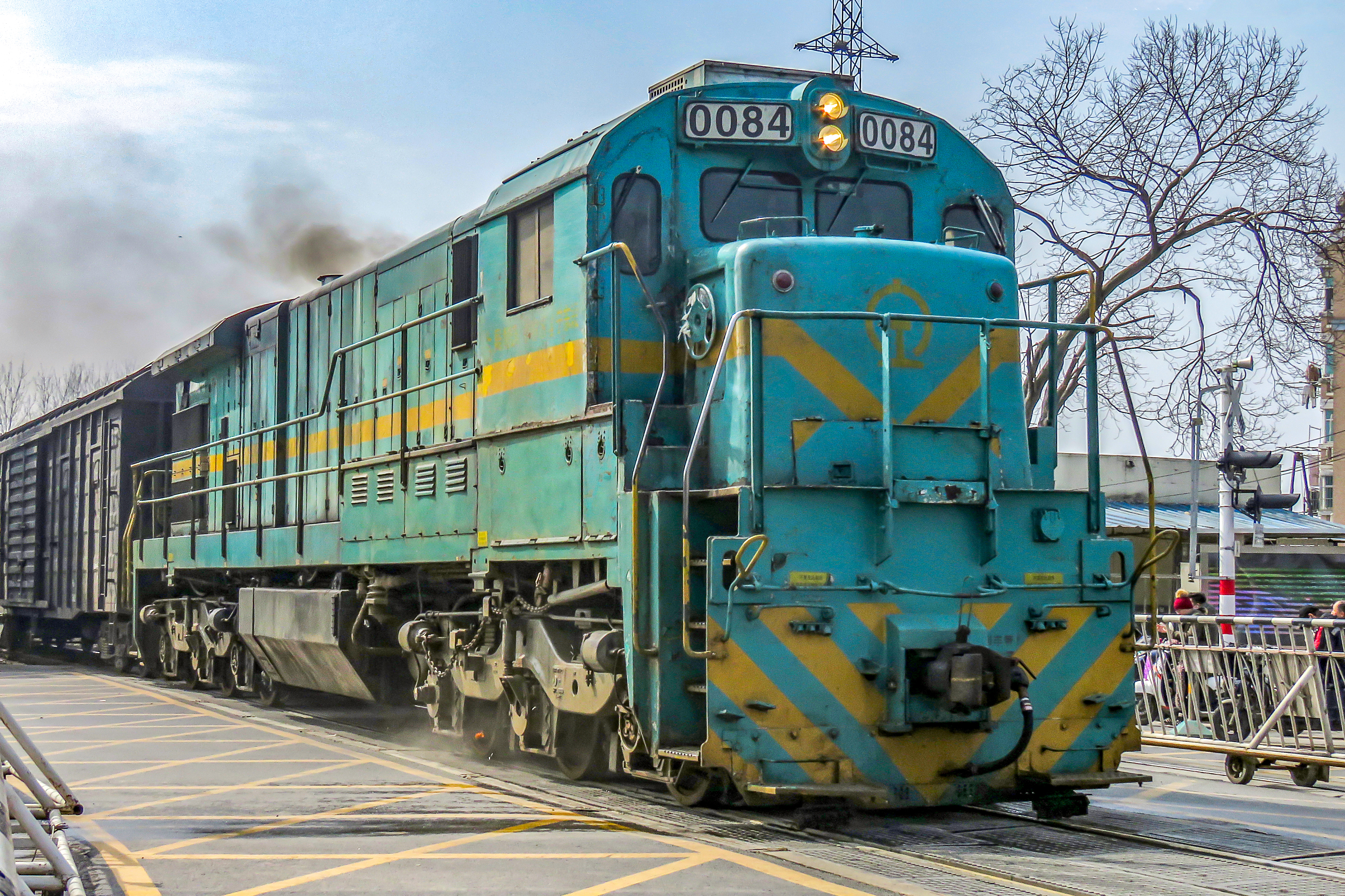 Taken after lunch, and trains began to run again.